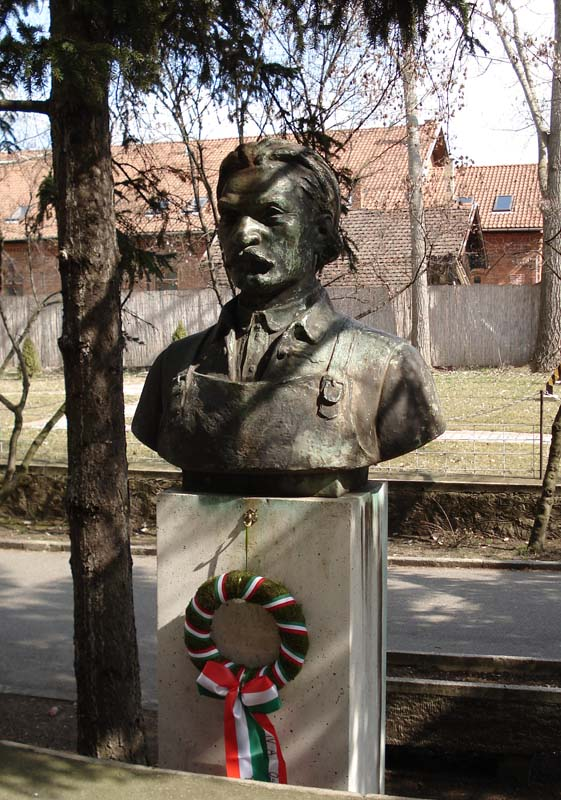 Statue of Gábor Áron (1814-1849) cannon maker, Miskolc, Gábor Áron Art School, High School